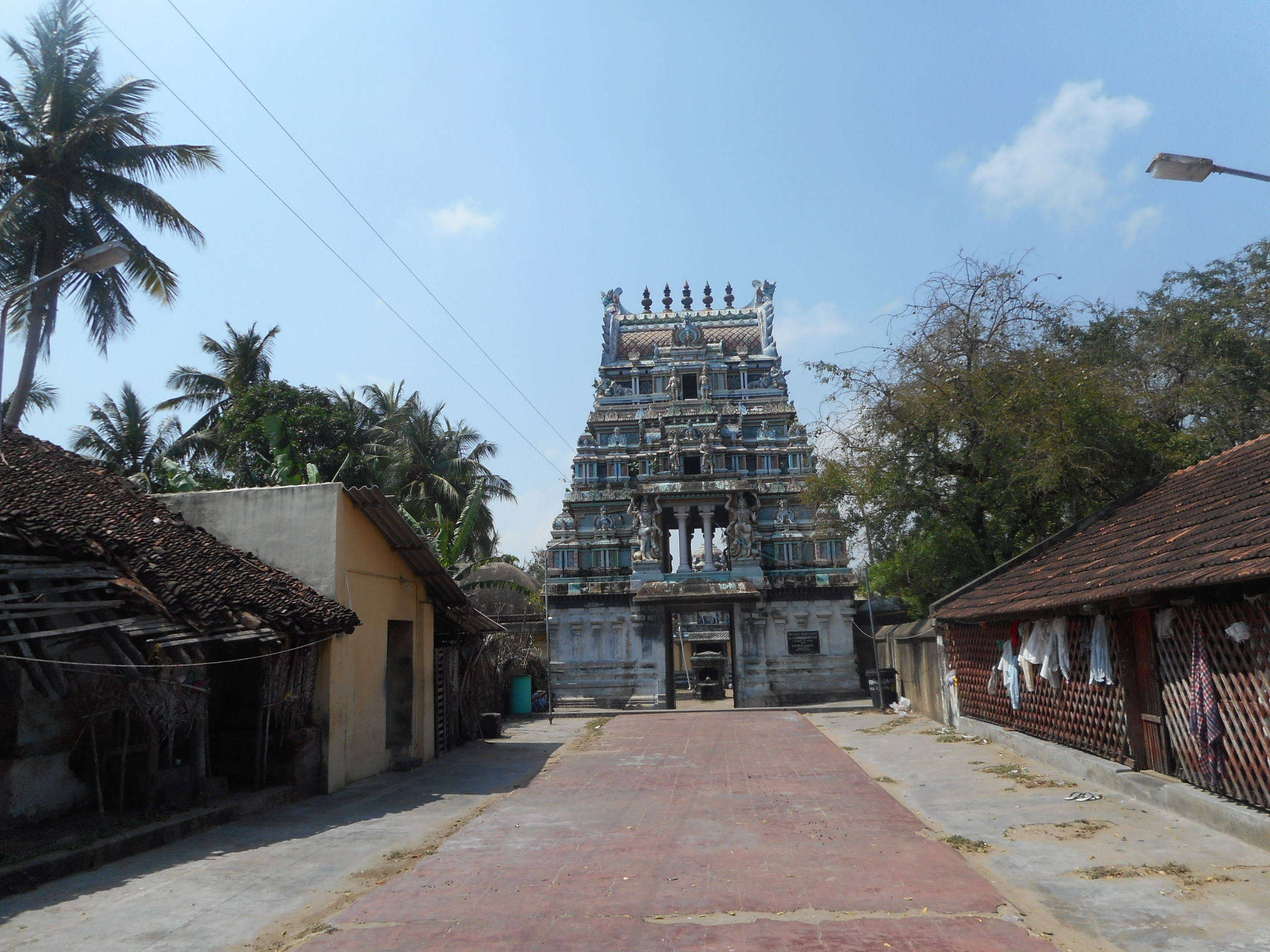 Agastianpalli temple அகத்தியான்பள்ளிகோயில்